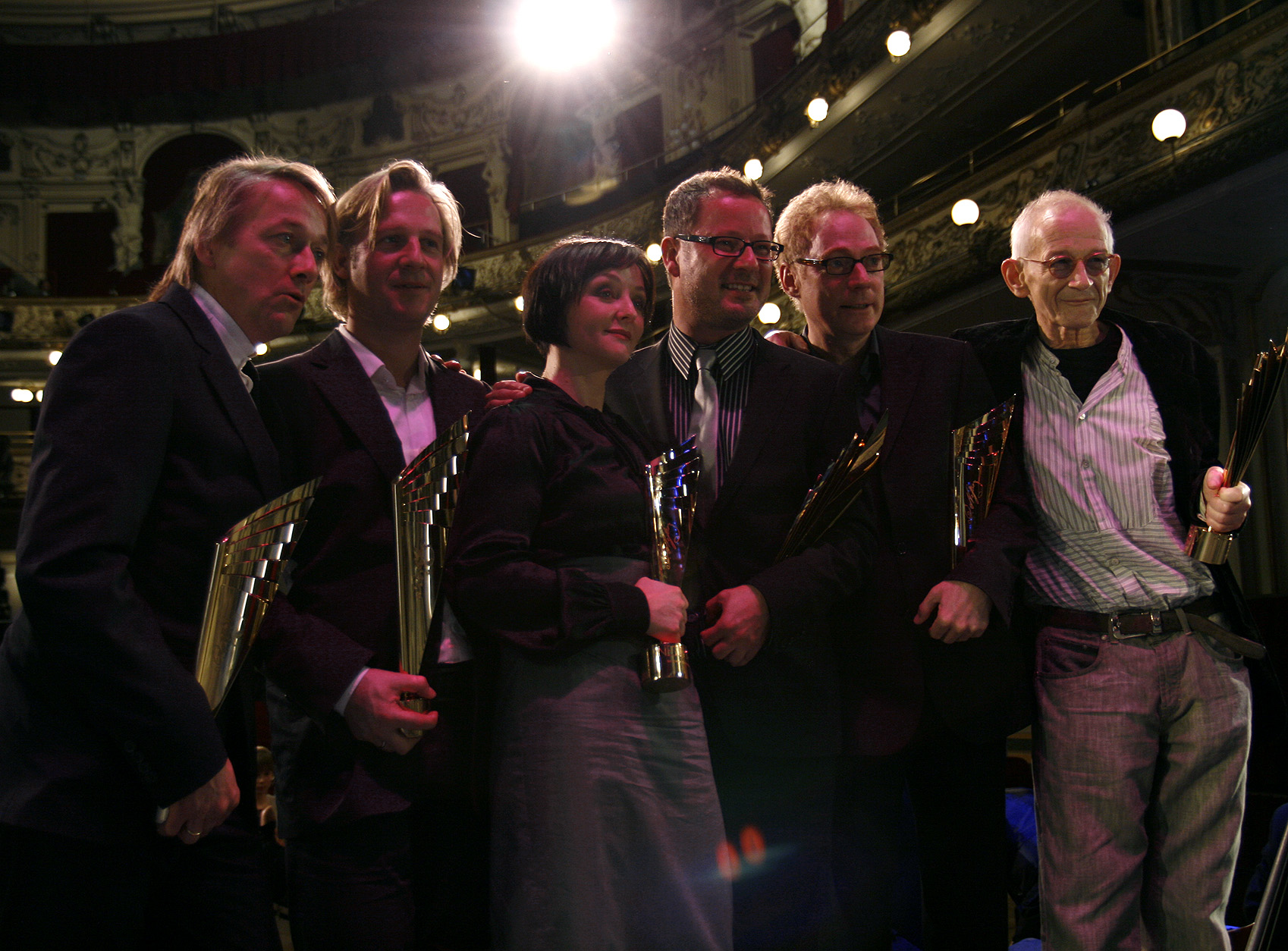 Winners of the Nestroy-Theaterpreis 2008 (Etablissement Ronacher, Vienna), left to right Markus Hering, Stefan Bachmann, Regina Fritsch, Andreas Beck, André Pohl and Gert Jonke.